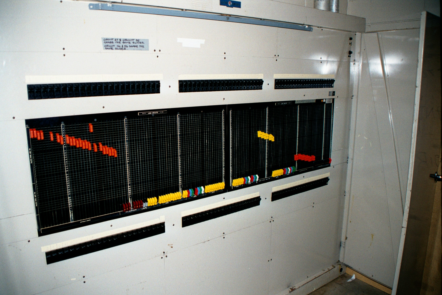 Photo showing an ElectroControls theatrical patch bay at Edina High School, Edina, MN.